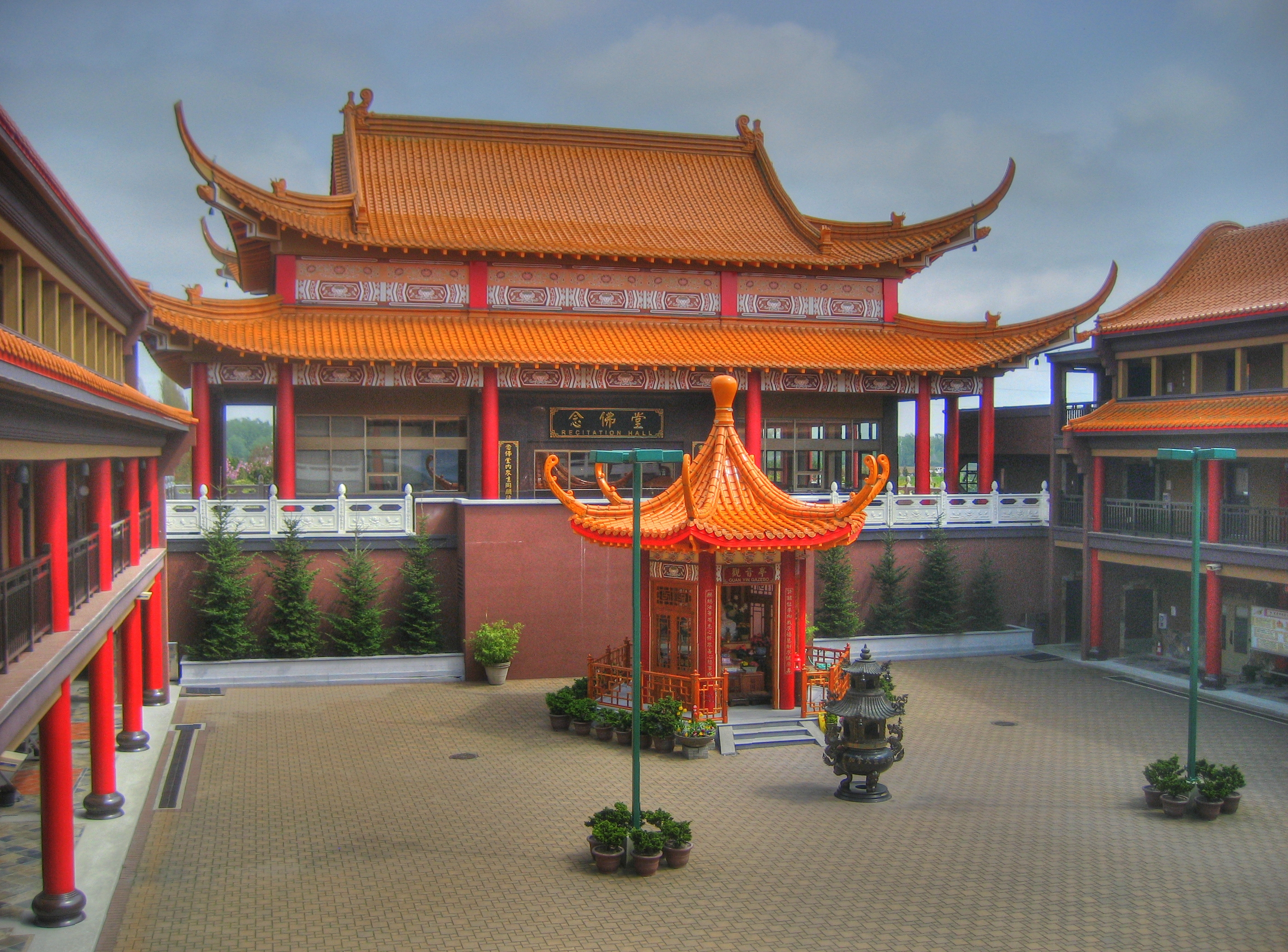 The spectacular (and very welcoming) Buddhist Temple on No. 5 Road in Richmond .